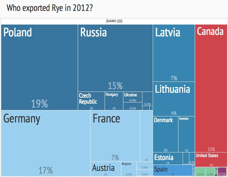 2012 Rye Export Treemap